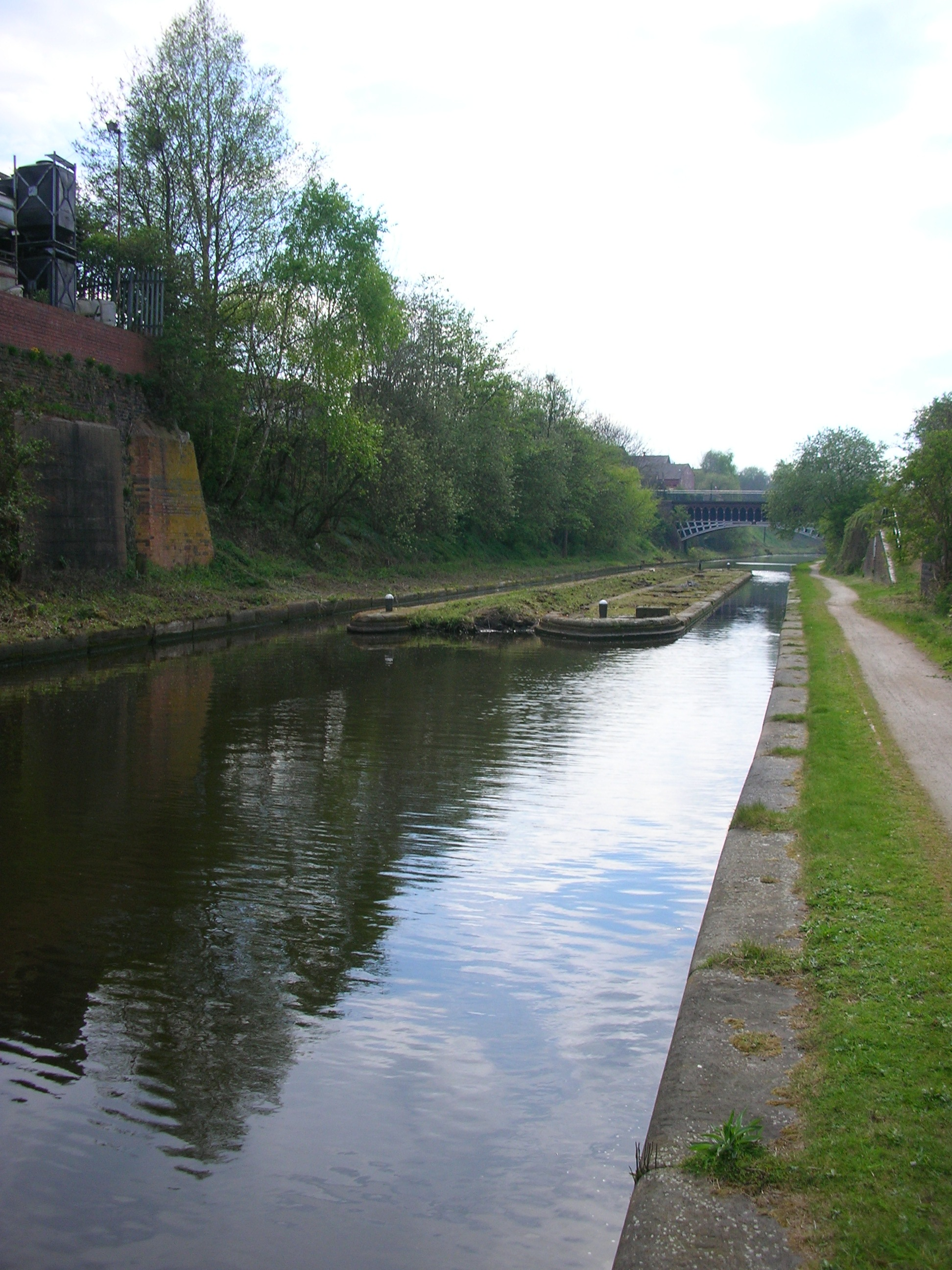 The derelict gauging station island in the, originally busy, double towpathed, Birmingham New Main Line Canal near the Engine Arm Aqueduct (visible in background), Smethwick, England. Photographed by me 1 May 2007. Oosoom